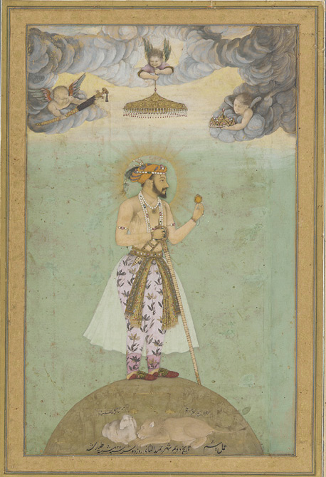 The Emperor Shah Jahan standing on a globe, Mughal dynasty, Reign of Shah Jahan, ca. 1618-19 to 1629 (1038 A.H.). Mughal dynasty. India. Opaque Watercolor, ink and gold on paper. Freer Sackler Gallery F1939.49a.